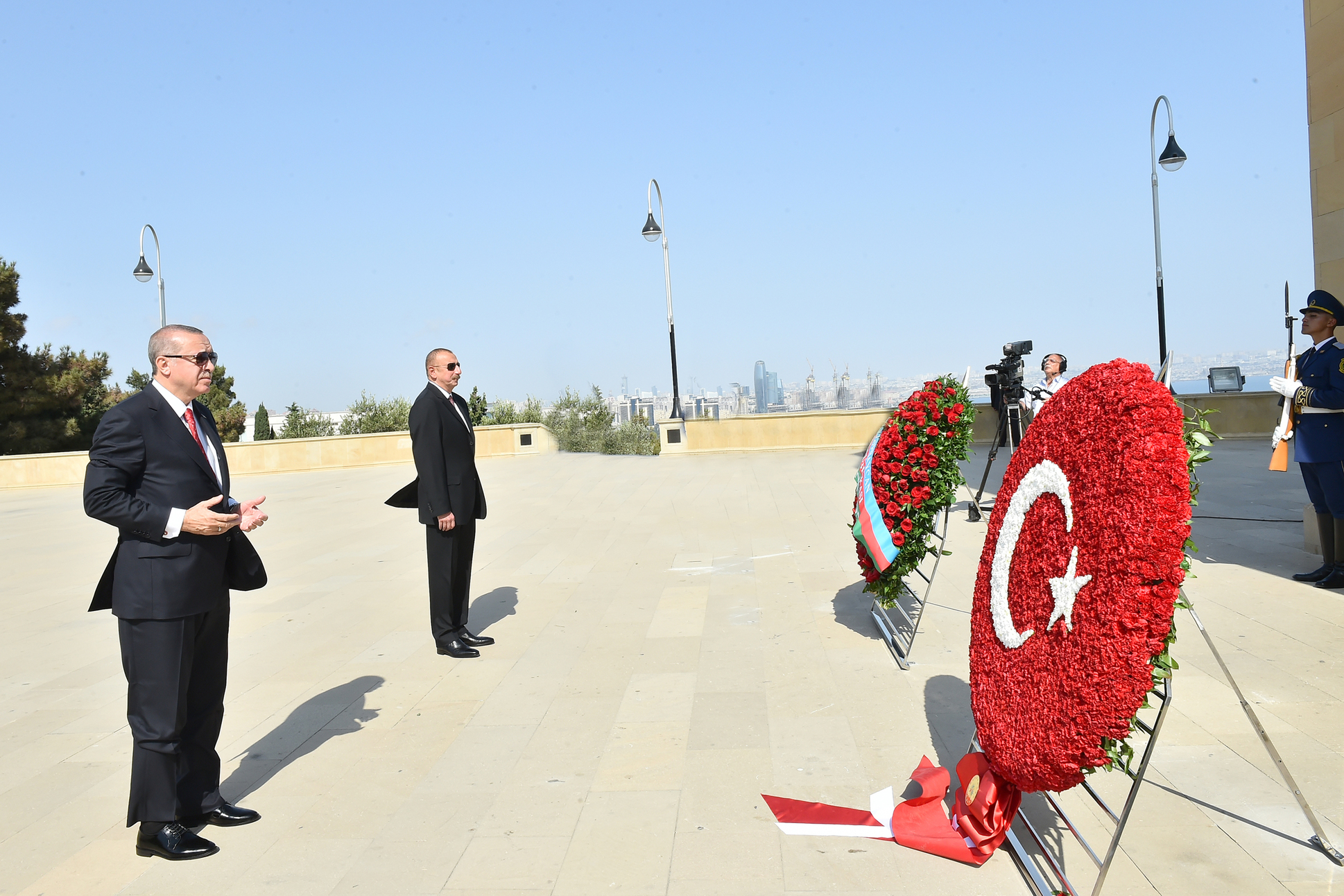 Ilham Aliyev and Recep Tayyip Erdogan have visited the Alley of Martyrs in Baku